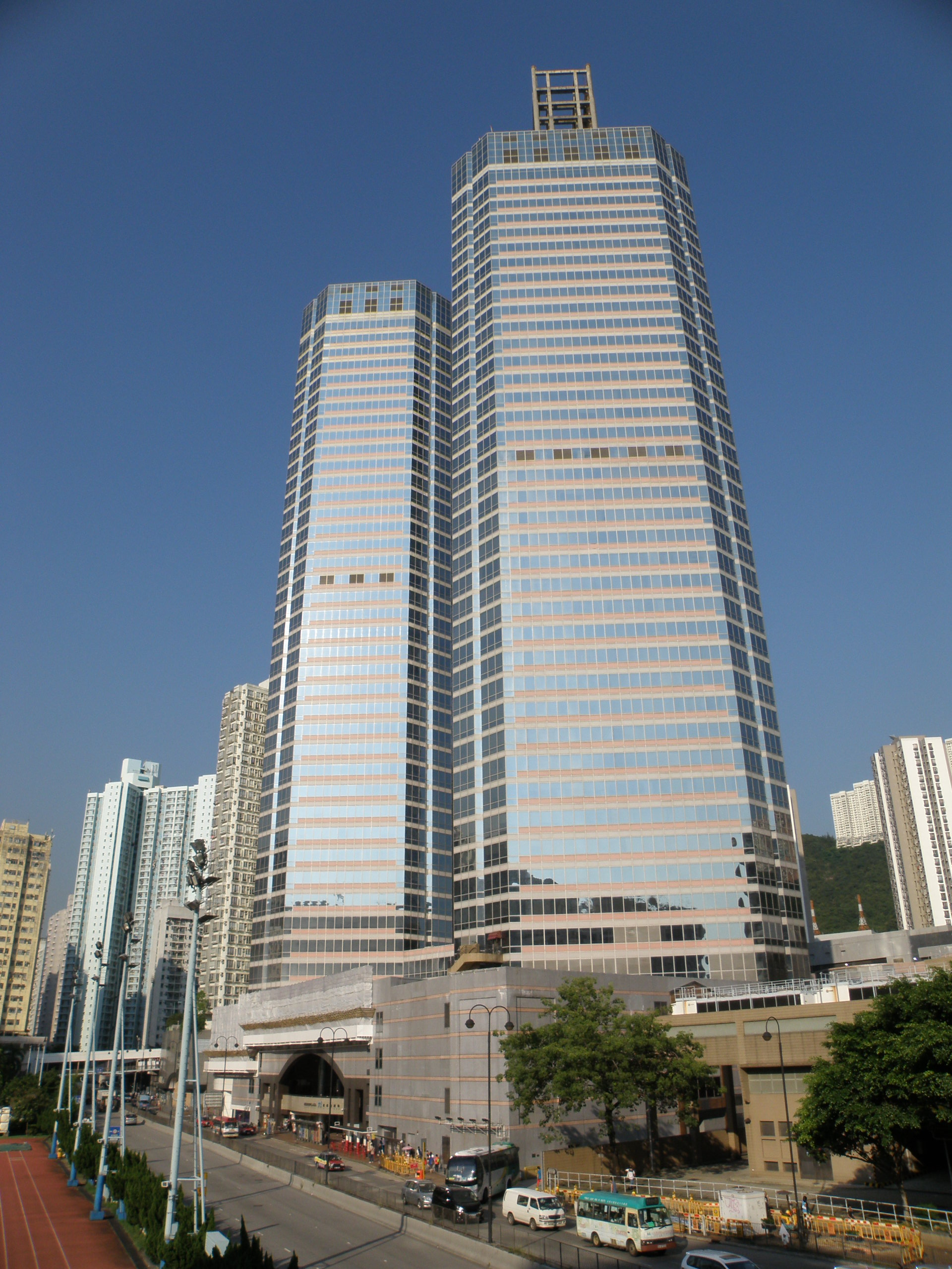 MetroPlaza in Kwai Fong, Hong Kong.